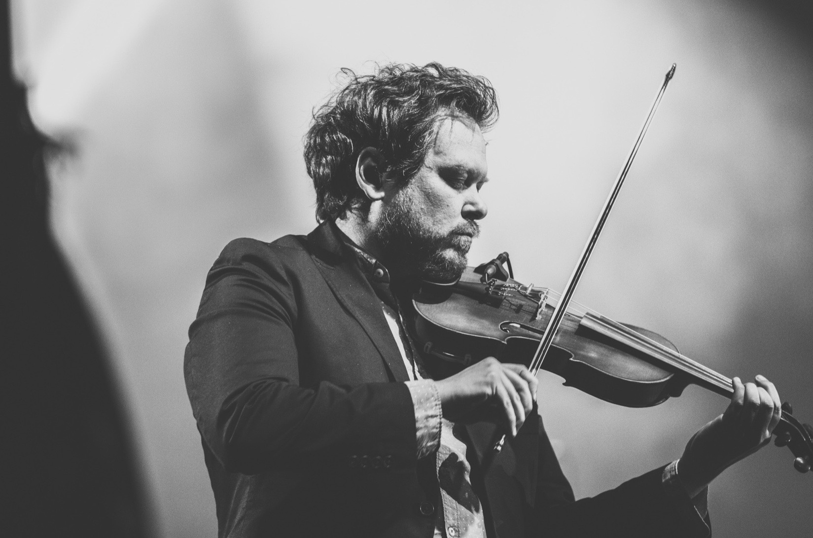 Mark Evitts performing with